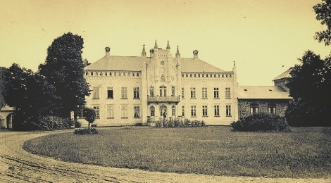 Manor house from the year 1902